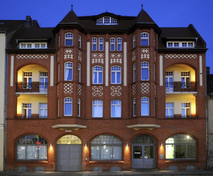 International Headquarters RapidEye RapidEye AG Molkenmarkt 30 14776 Brandenburg an der Havel Germany Phone: +49 3381 8904-100 Fax: +49 3381 8904-101